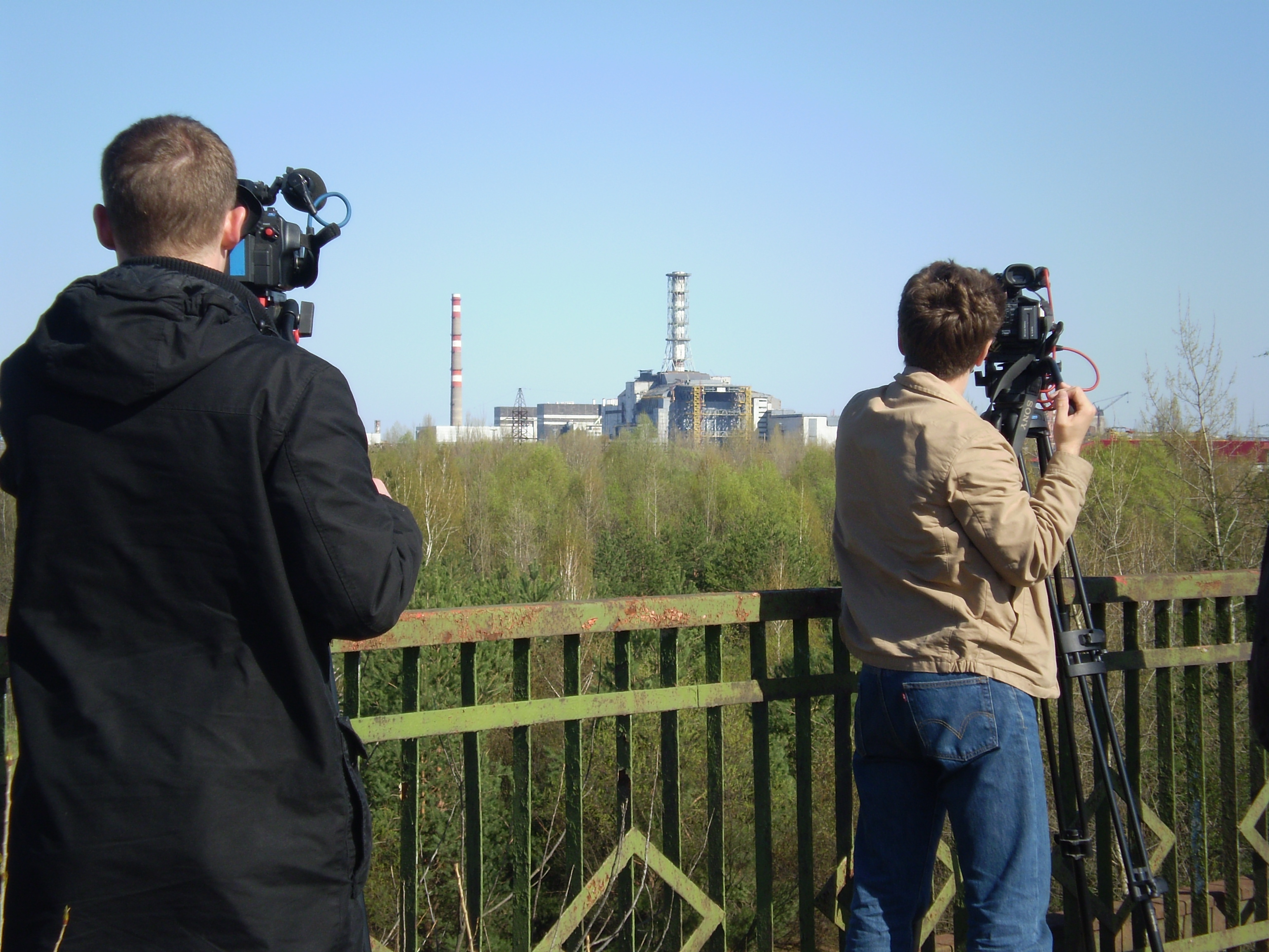 In april 2008 CRDP organised a press-trip for international journalists. TV Poland, Interviews Ukraine and Deuche-Welle TV, Norwegian Broadcasting corporation and The Sankei Shimbun (Japan) visited UNDP CRDP office, Chernobyl exclusion zone, Korosten Community Develoment Centre, Korosten local authorities Korosten city and Lugyny Youth Centre. The goal of the press-tour was to provide journalists with information about the current state of Chernobyl-affected areas and about UNNP-CRDP activities. As outcomes of the press-tour 3 TV programmes and one track were produced and one article was published.